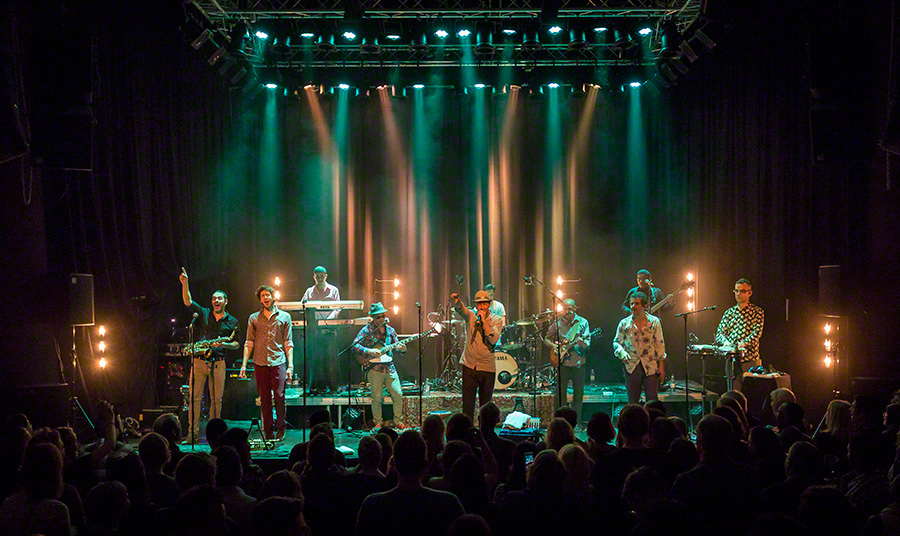 Orchestre National de Barbès performs at Cosmopolite Scene in Oslo on 30. April 2016. The group, named after the part of Paris they originate from performs pop music with a strong influence from North Africa.